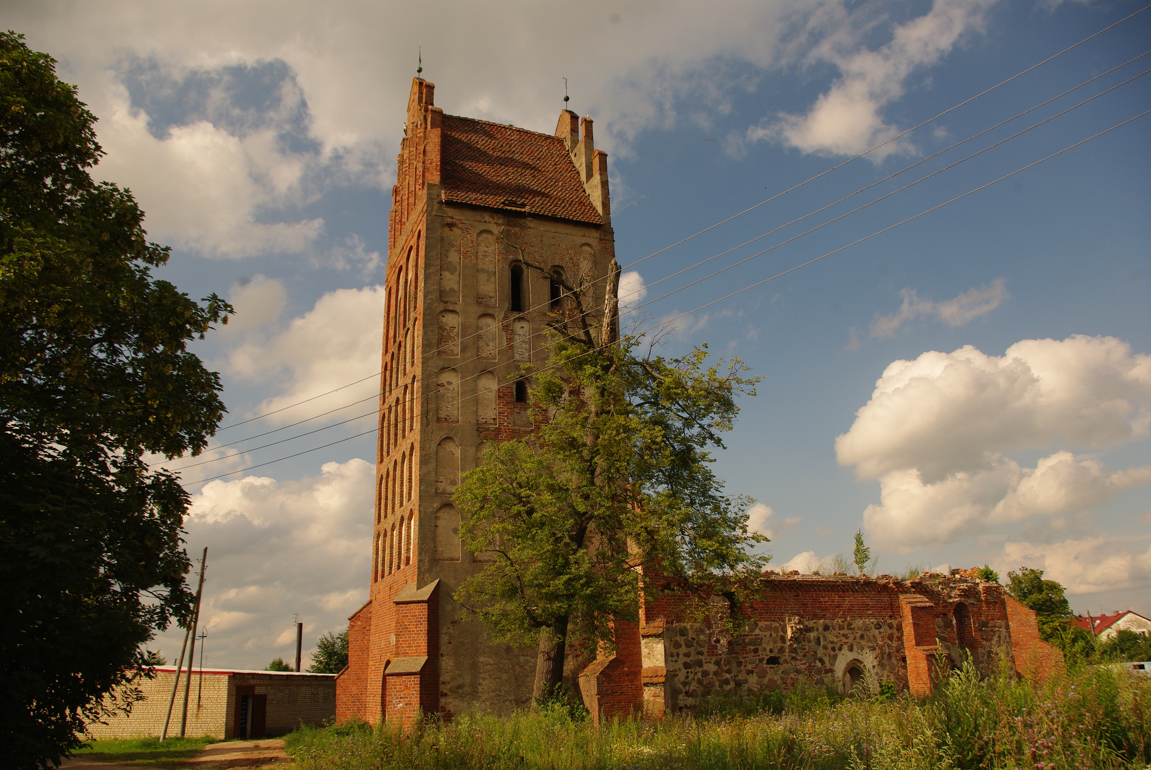 The ruins of medieval church in the village Porech'e (before 1945 - Allenau; Kalinigrad region, Russian Federation). It was built by the Teutonic Order probably in the beginig of 15 c.